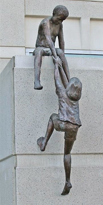 Image depicts a child coming to the aid of another in need. Once we have climbed it is essential for the sake of humanity that we help others do the same. It is knowing that we all could use, and have used, a helping hand. Background Information: The sculpture is a Paesaggio design. Paesaggio provided design services centered on the theme "children are our future," for the City of Alameda and Hayward Social Services.